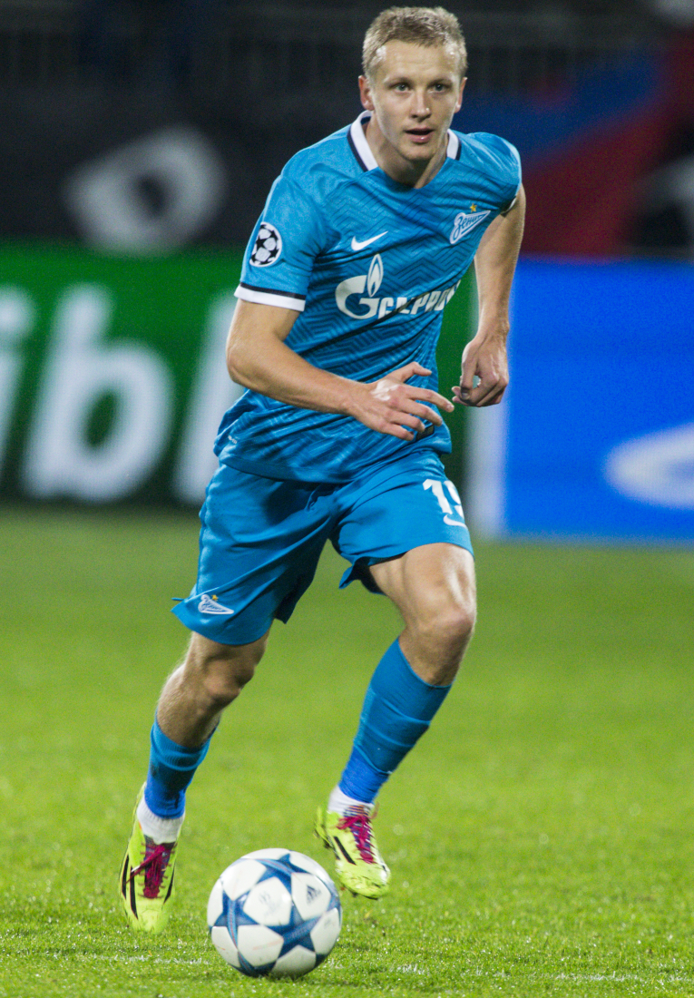 Igor Smolnikov